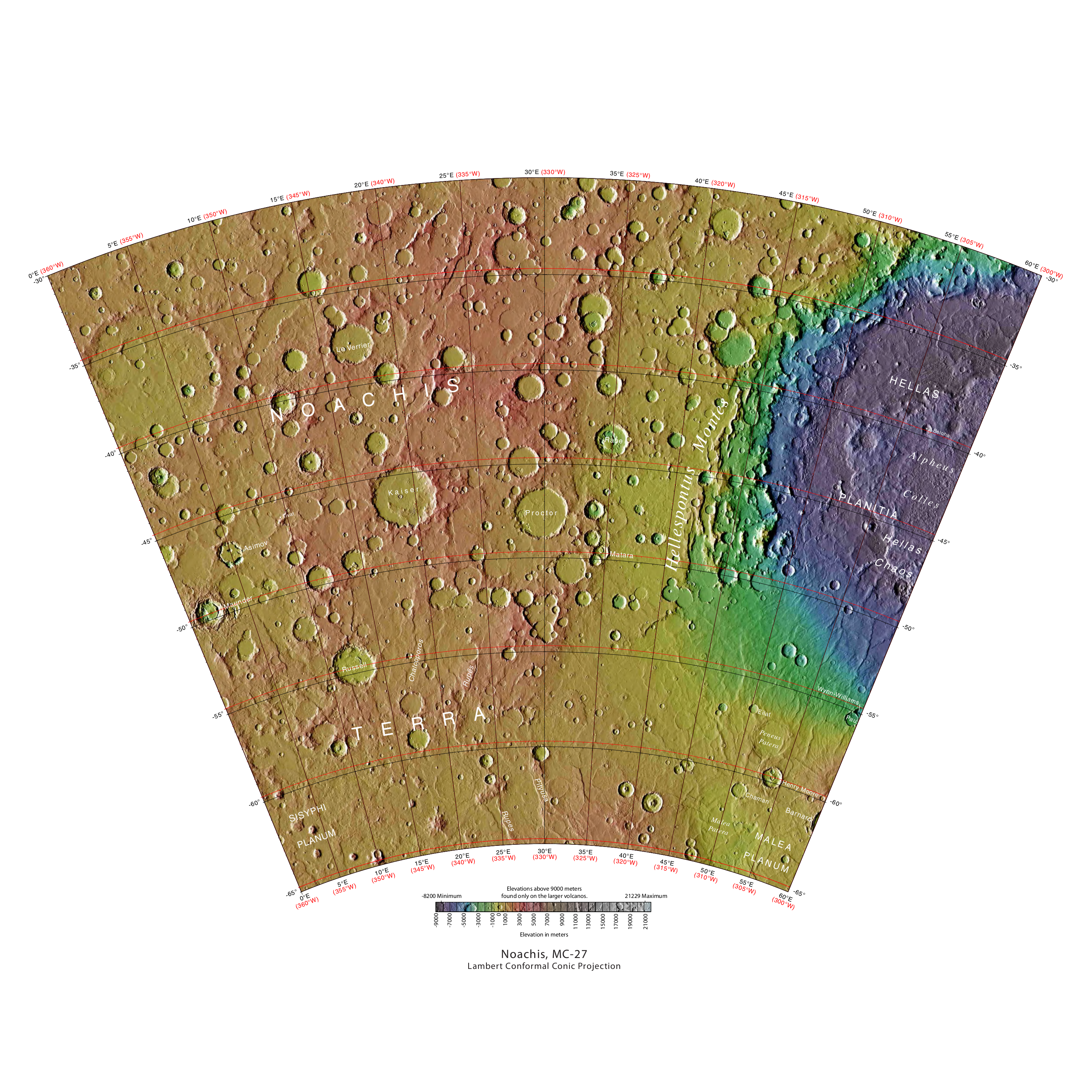 MOLA Topographic Map of Noachis Quadrangle (MC-27) on the planet Mars. NOTE: Converted the original PDF file to a PNG File (via GIMP v2.8.4 program) - and uploaded to Wikimedia Commons.